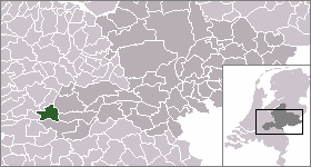 Locator map of Dutch municipalities in Gelderland (LocatieLingewaal.png)